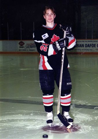 Description: Shot by team photographer during the 2000-01 BCHL season. Date: 22 August 2007 (original upload date) Author: Original uploader is Merrittcentennials Permission: Released into the public domain (by the author).